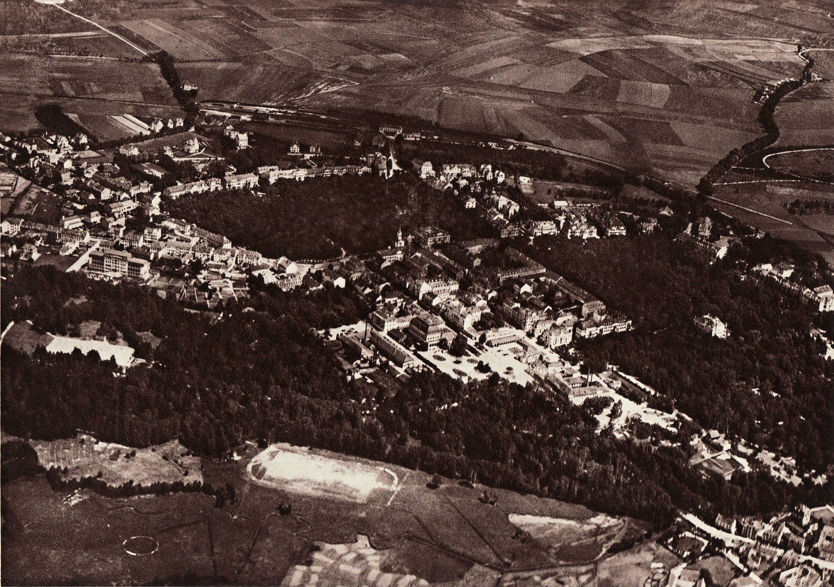 Aerial view of Františkovy Lázně.